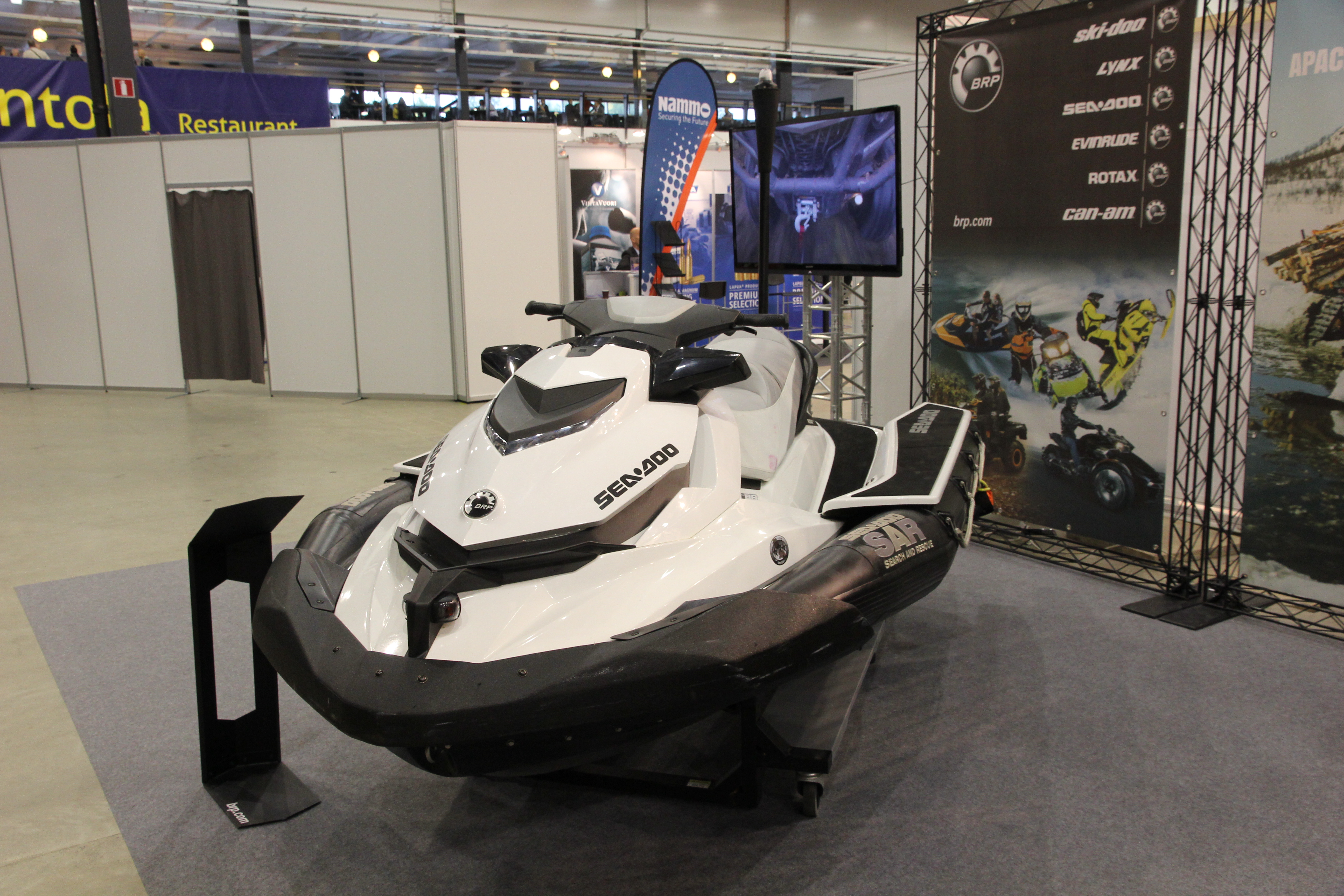 Sea-Doo SAR water jet at Comprehensive security exhibition 2015 in Tampere.